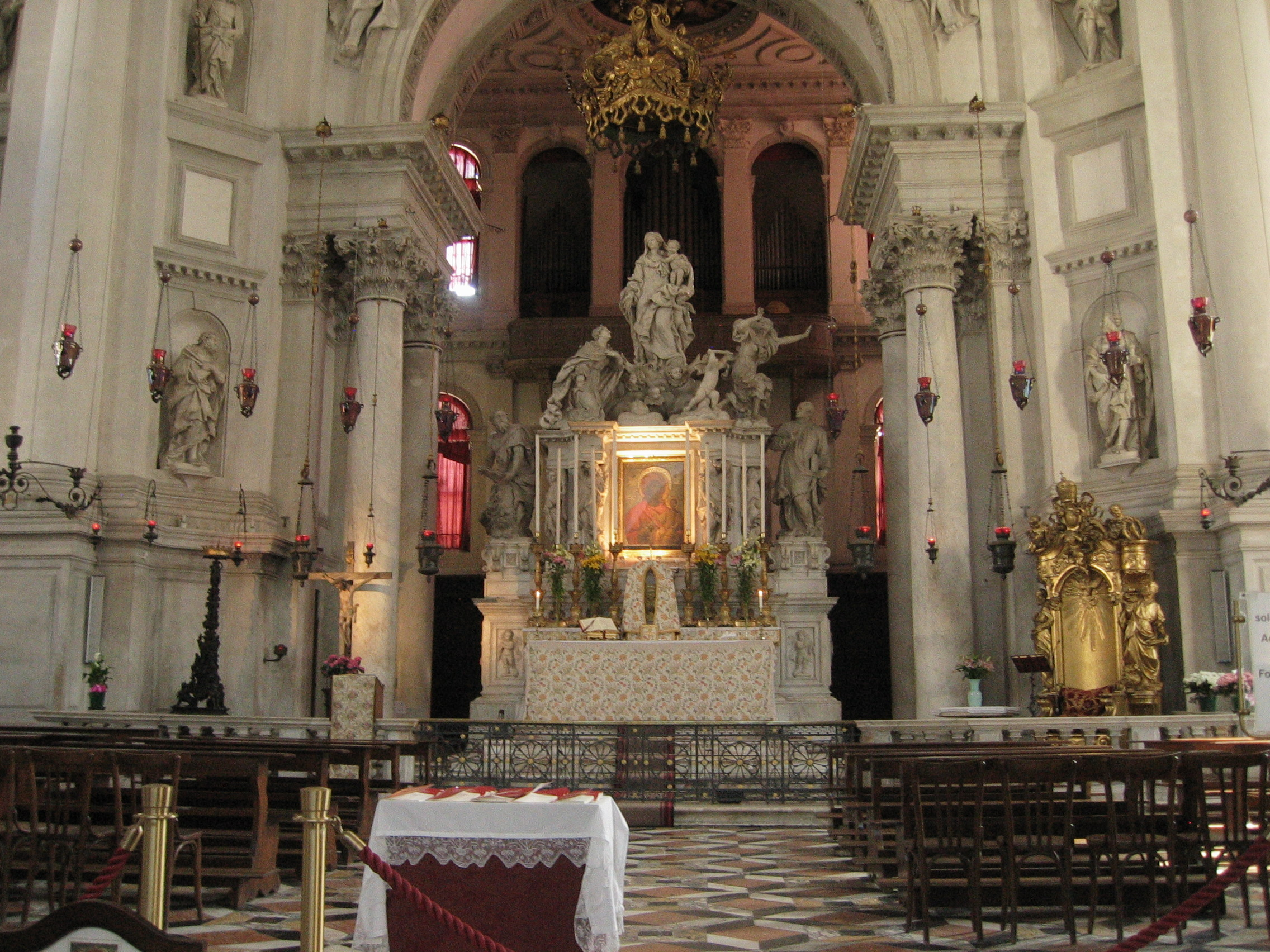 Inside of the on Venise